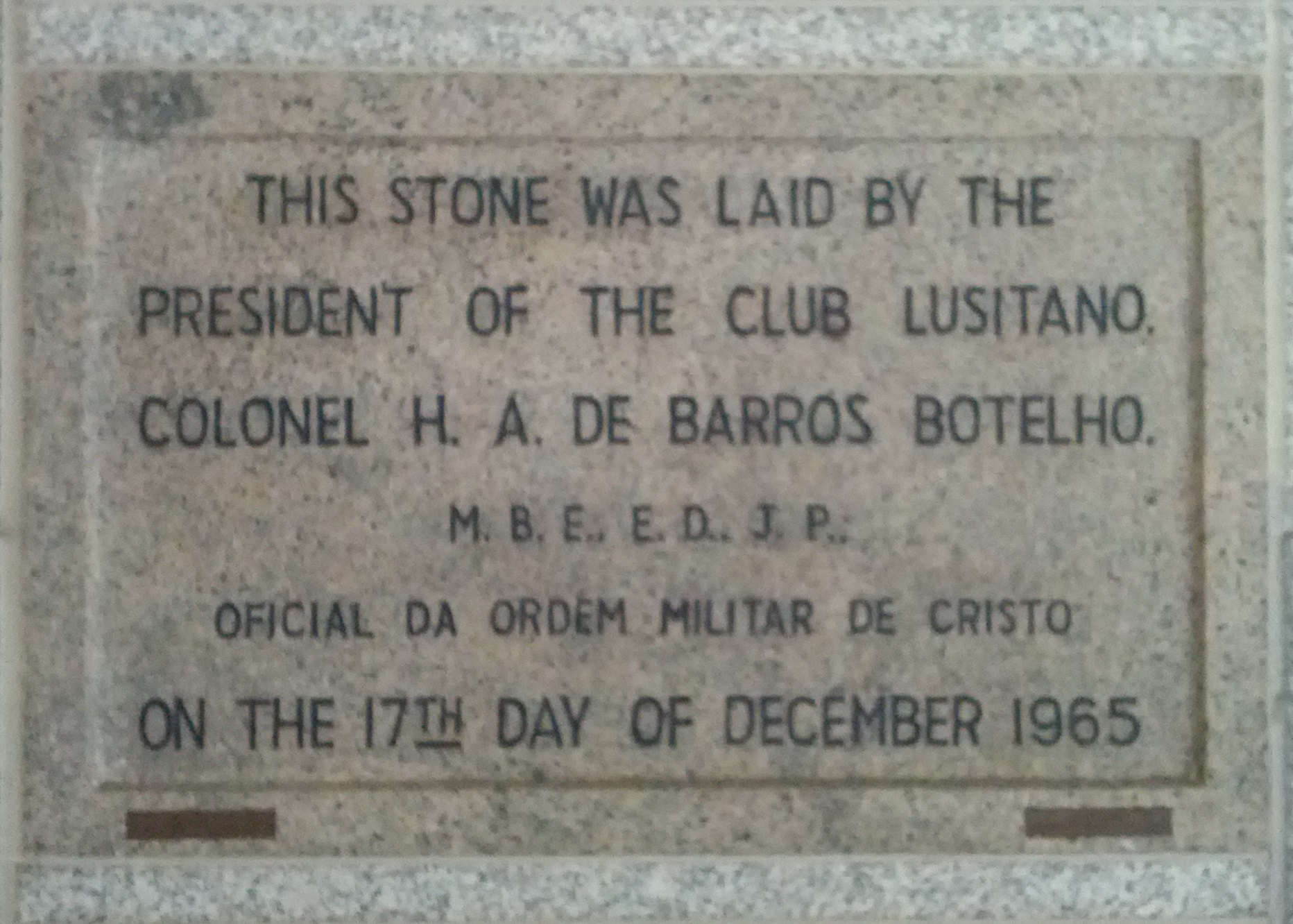 The foundation stone of Club Lusitano Building as laid by Colonel H. A. de Barros Botelho, President of Club Lusitano, on 17 December 1965.